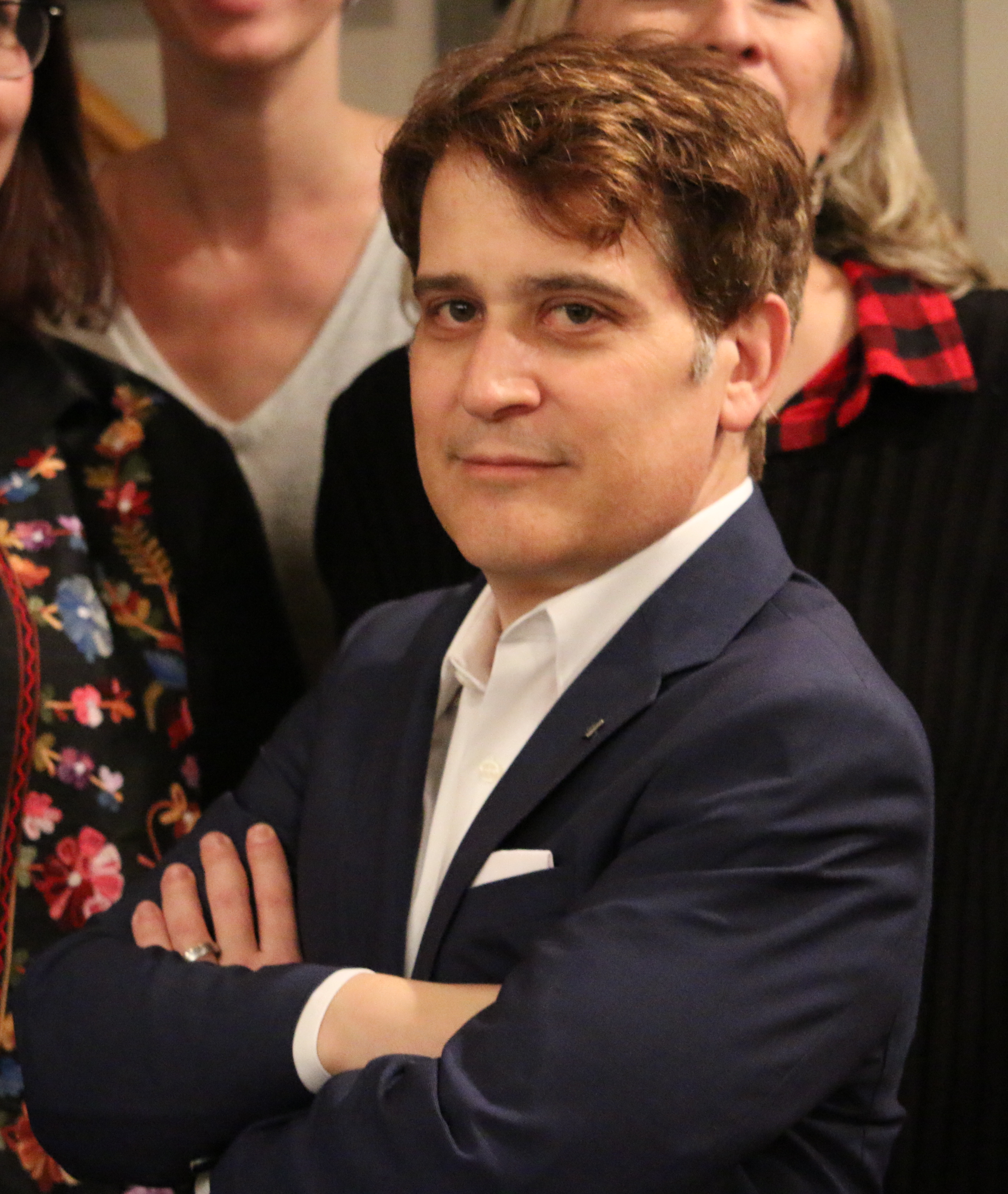 Publicity photo of David H. Steinberg from the production of No Good Nick.